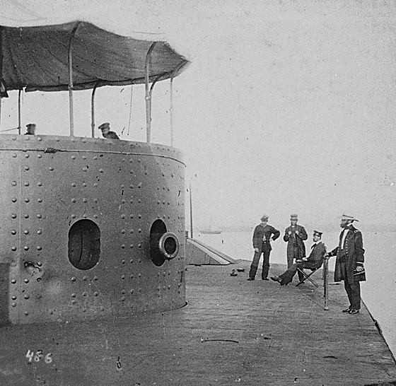 The Original Monitor after her Fight with the Merrimac. Near the port-hole can be seen the dents made by the heavy steel-pointed shot from the guns of the Merrimac. Hampton Roads, Virginia.